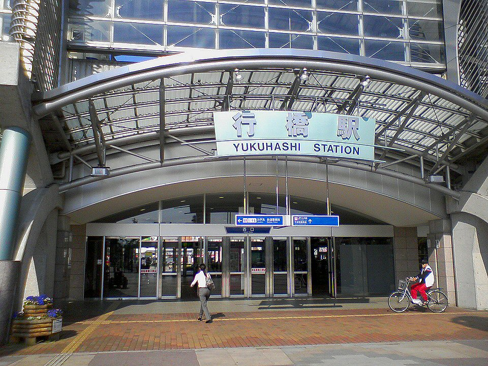 Yukuhashi Station in Yukuhashi City, Fukuoka, Japan